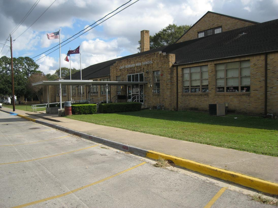 Photo shows the front of the East Bernard High School on Fitzgerald Street. View is toward the east.